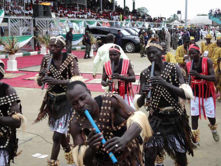 Pictures from the closing ceremony of National Festival of Arts and Culture (NAFEST) 2010 in Uyo, Akwa Ibom state Nigeria. This is an image of Cultural Fashion or Adornment from Nigeria